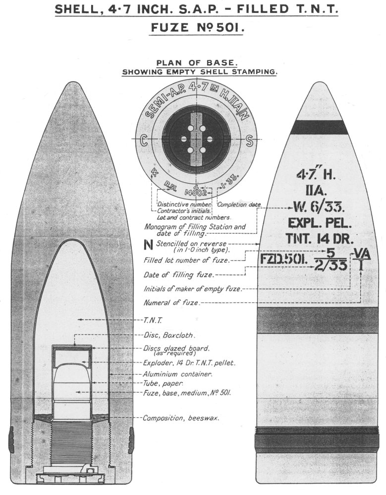 Diagrams depicting British 4.7 inch Mk II A S.A.P. naval shell.